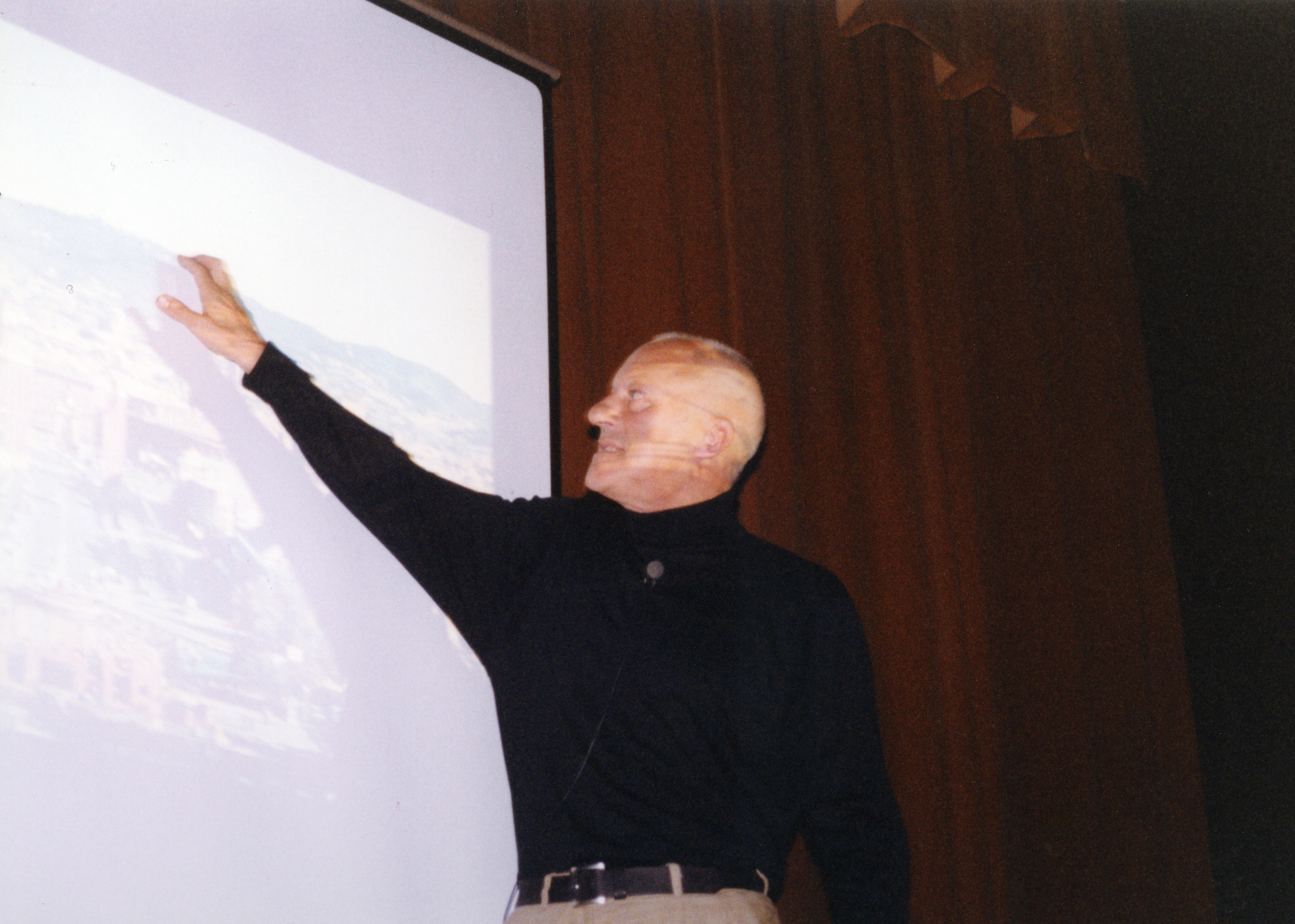 LSE Public Lecture - 15 March 2001 Infrastructure and Cities IMAGELIBRARY/891 Persistent URL